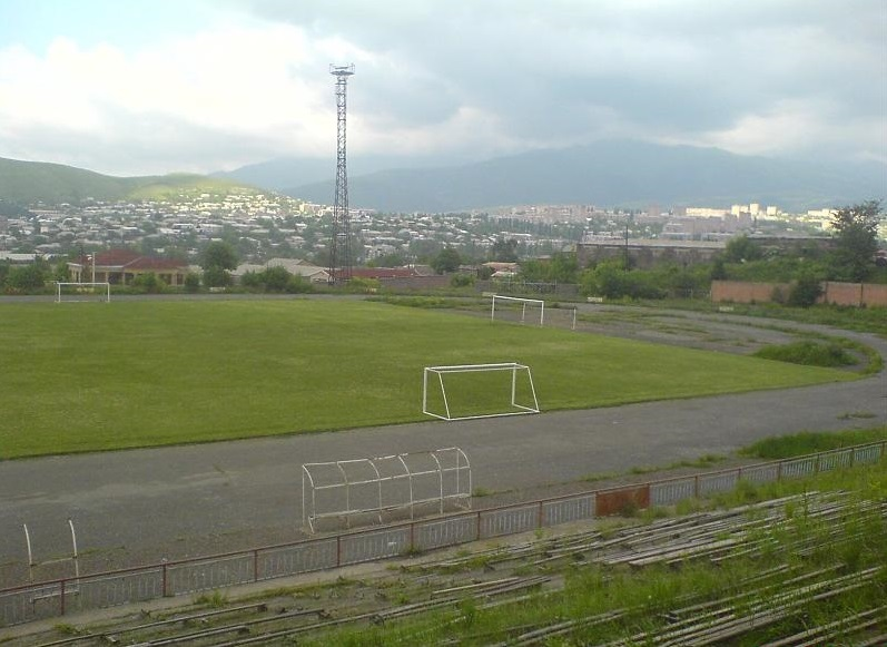 Vanadzor, Armenia, Lori stadium.